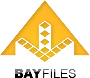 Logo for BayFiles